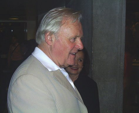 Anthony Hopkins at the premiere of Proof at the Toronto International Film Festival.